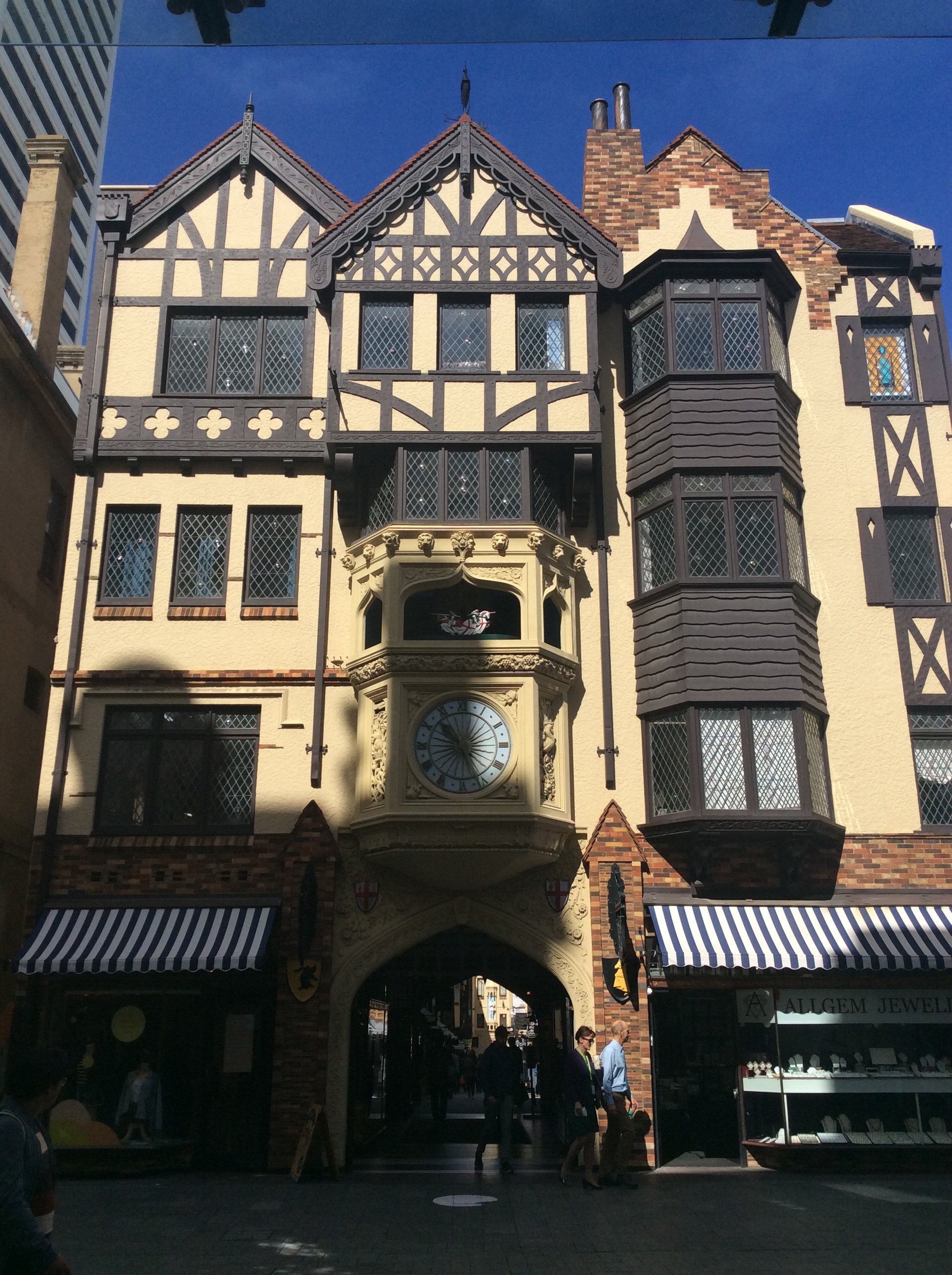 London Court (Q14935851)